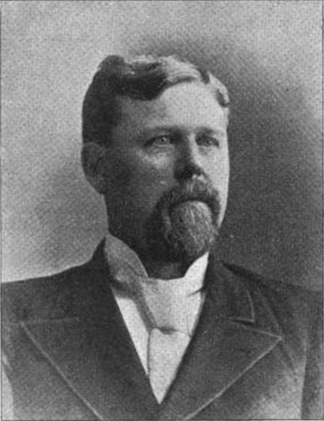 Michigan Justice Charles Dean Long, The Green Bag, Vol. 2, p. 393